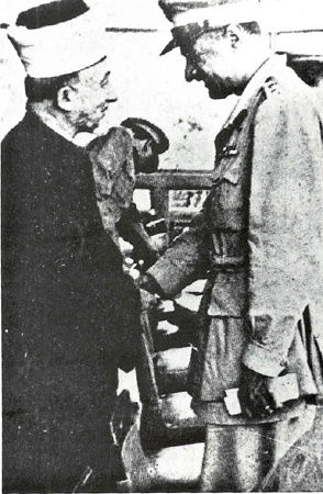 The Grand Mufti of Jerusalem, Haj Amin al-Husayni meeting with future Egyptian president Abdel Nasser.